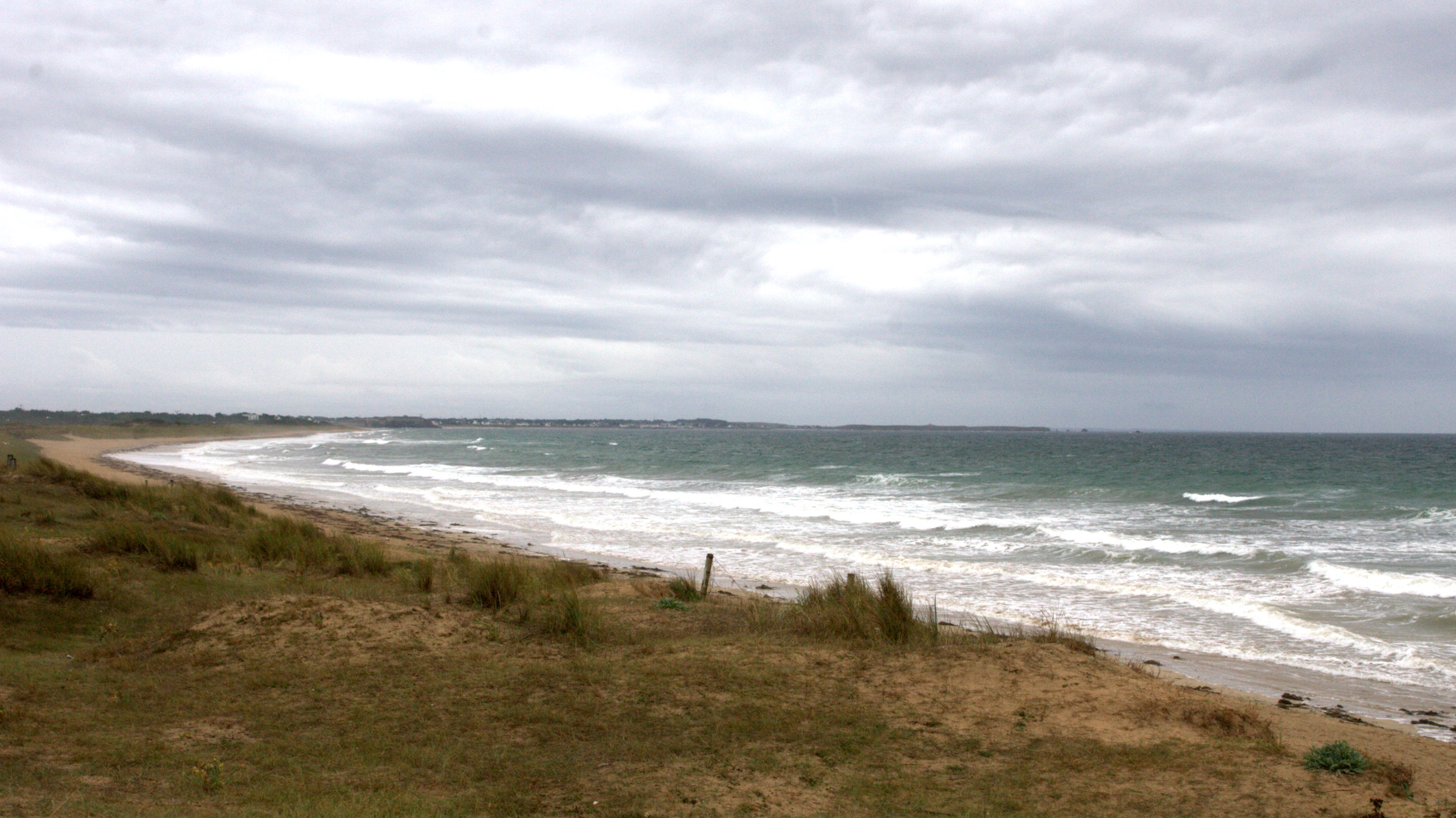 After our visit to Carnac we went for the beach.